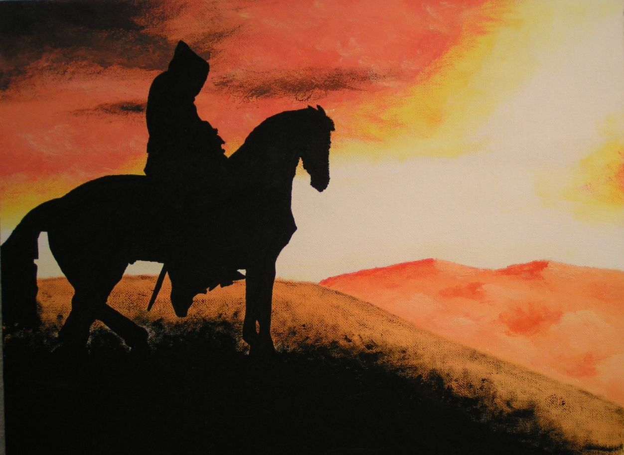 One of the Nazgûl, fictional characters from the novel The Lord of the Rings, by J. R. R. Tolkien, looking at the sunset from a hill.